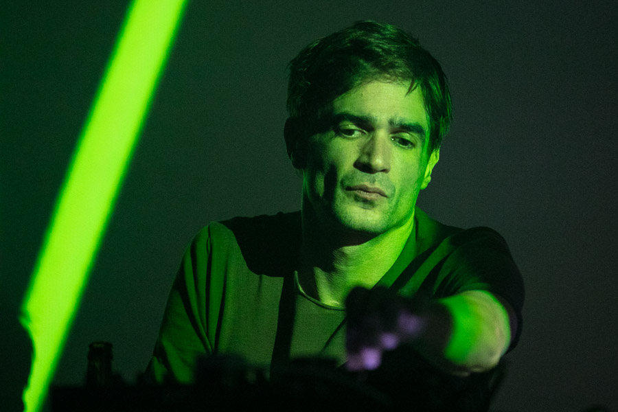 Jon Hopkins on stage at Rockefeller Music Hall in Oslo, Norway.